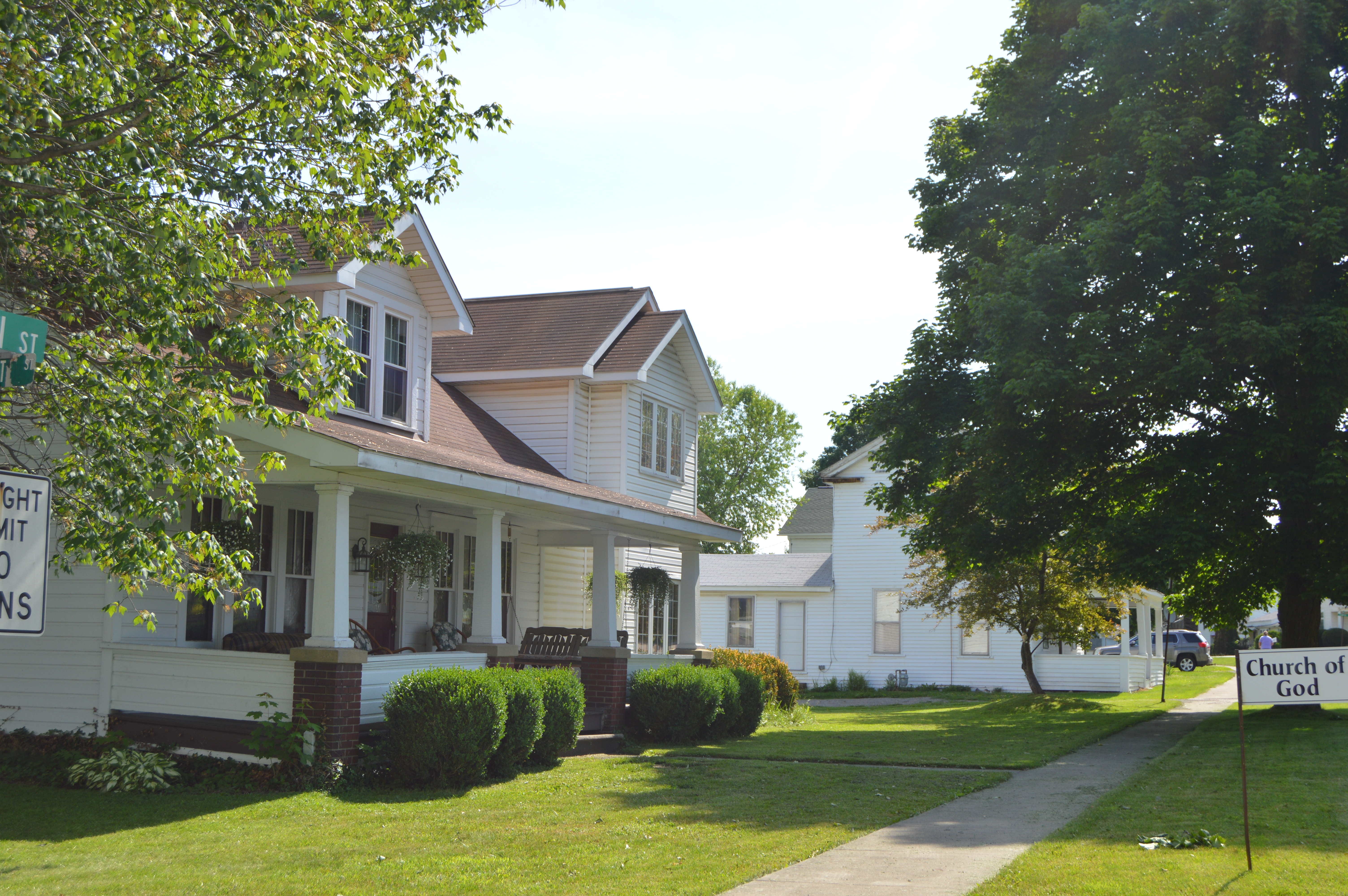 Houses on the northern side of Main Street (Pennsylvania Route 368), immediately east of the Scott Street intersection, in Callensburg, Pennsylvania, United States.